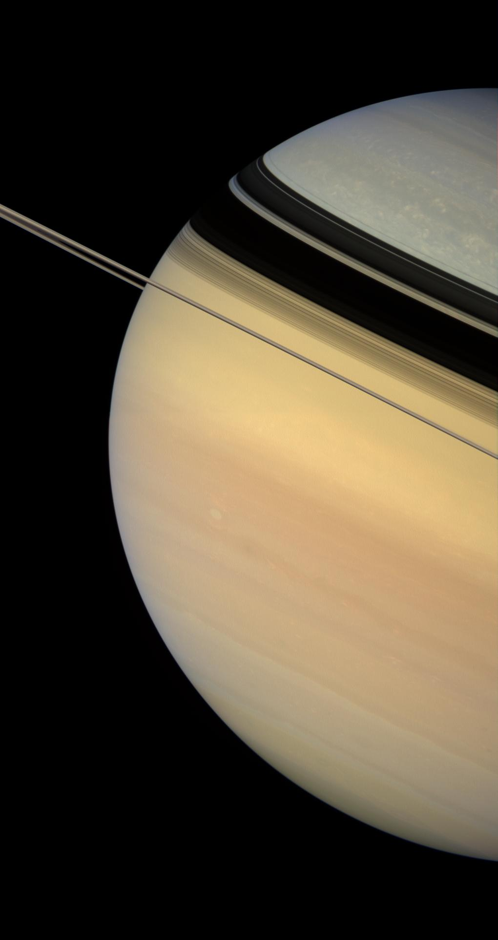 Original Caption Released with Image: Dark and sharply defined ring shadows appear to constrict the flow of color from Saturn's warmly hued south to the bluish northern latitudes. Scientists studying Saturn are not yet sure about the precise cause of the color change from north to south. NASA Voyager spacecraft flybys witnessed a more evenly painted planet in the early 1980s, when Saturn was closer to equinox. However, the bluish color was readily apparent upon Cassini's approach to the planet in late 2003, when Saturn was just coming out of its northern hemisphere winter. Scientists have speculated that the color is due to seasonal effects on the atmosphere. Aside from the color differences, the cloud morphology is quite different in the polar regions compared to the mid-latitudes. Bright, isolated clouds dot the high latitudes, while Saturn's middle is characterized by flowing cloud bands and the occasional bright or dark vortex. This view looks toward the lit side of the rings from about half a degree below the ring plane. Images taken using red, green and blue spectral filters were combined to create this natural-color view. The images were obtained with the Cassini spacecraft wide-angle camera on Feb. 4, 2007, at a distance of approximately 1.2 million kilometers (700,000 miles) from Saturn. Image scale is 67 kilometers (42 miles) per pixel. The Cassini-Huygens mission is a cooperative project of NASA, the European Space Agency and the Italian Space Agency. The Jet Propulsion Laboratory, a division of the California Institute of Technology in Pasadena, manages the mission for NASA's Science Mission Directorate, Washington, D.C. The Cassini orbiter and its two onboard cameras were designed, developed and assembled at JPL. The imaging operations center is based at the Space Science Institute in Boulder, Colo. For more information about the Cassini-Huygens mission visit The Cassini imaging team homepage is at